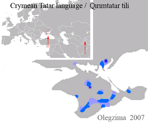 Dark blue - territory, where Crimean Tatar language is used chiefly, light blue - other territories where the language is used